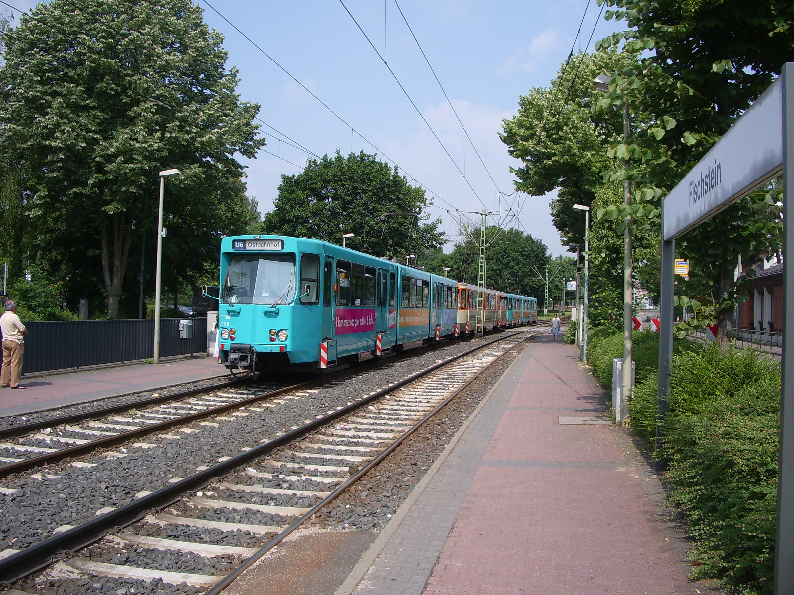 VGF light rail car Ptb 713 at Fischstein (Line U6, June 29 2006). Created and uploaded by Philipp Gross